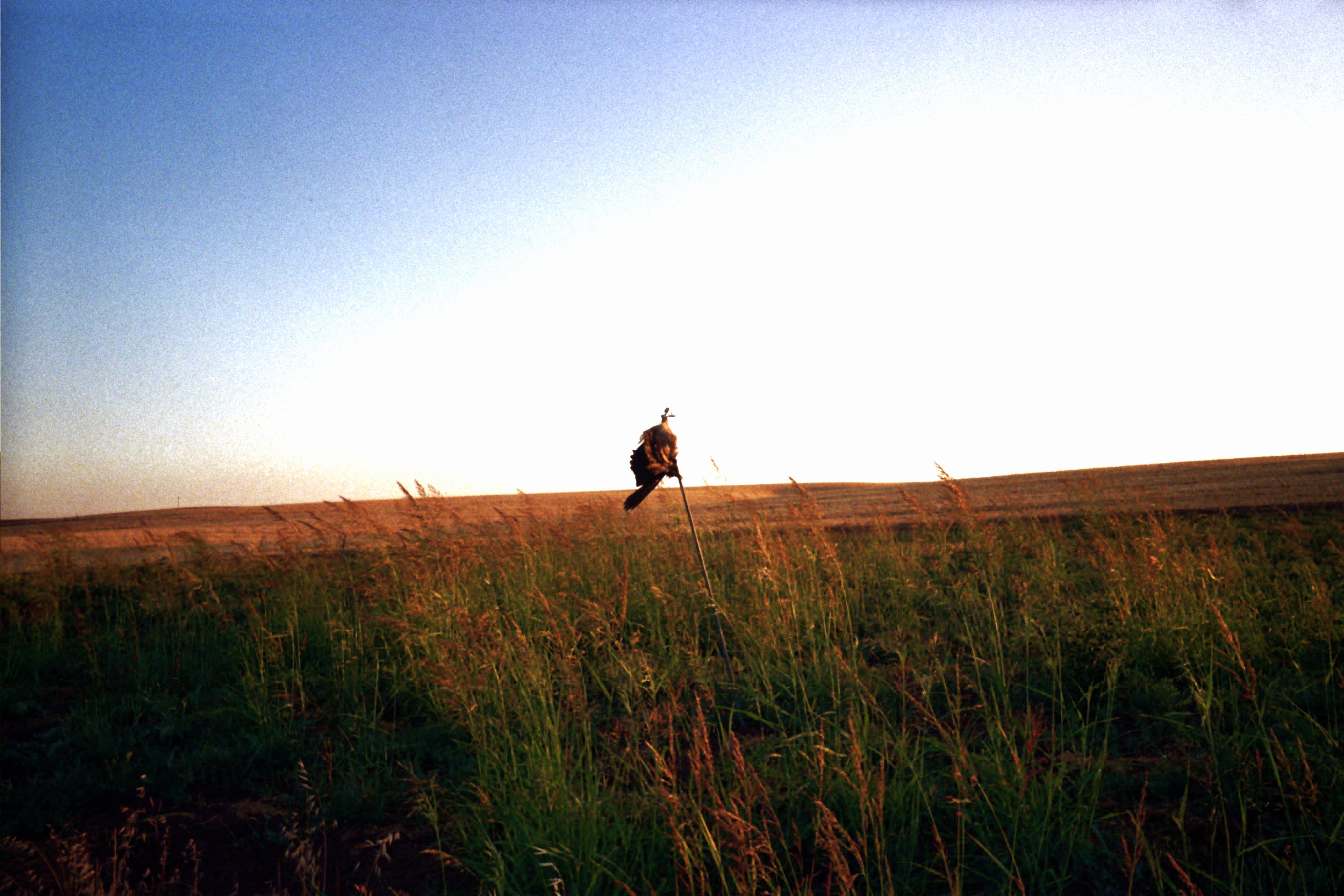 The Bedouin put dead birds (here a passerine) in the fields for good luck